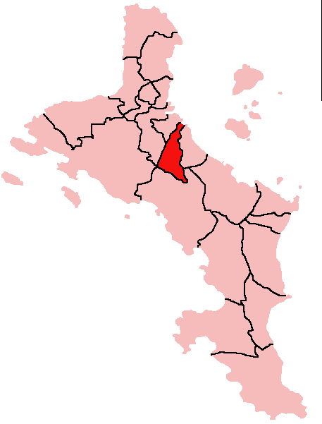 Map of Mahe Island, Seychelles showing Plaisance District; created with the GIMP. Made by User:Acntx.